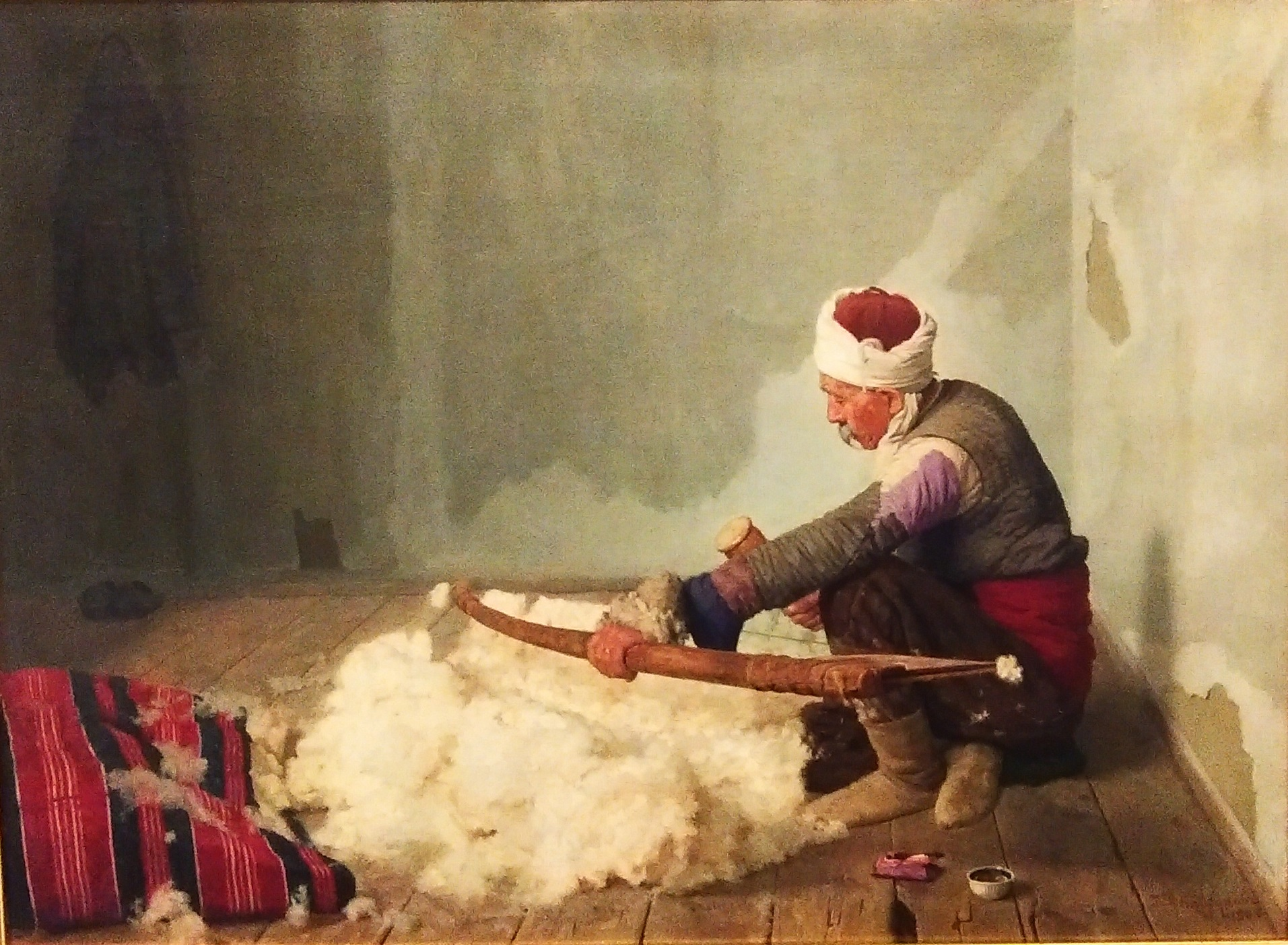 Wool processing, a painting by Petko Klisurov, Bulgaria 1906